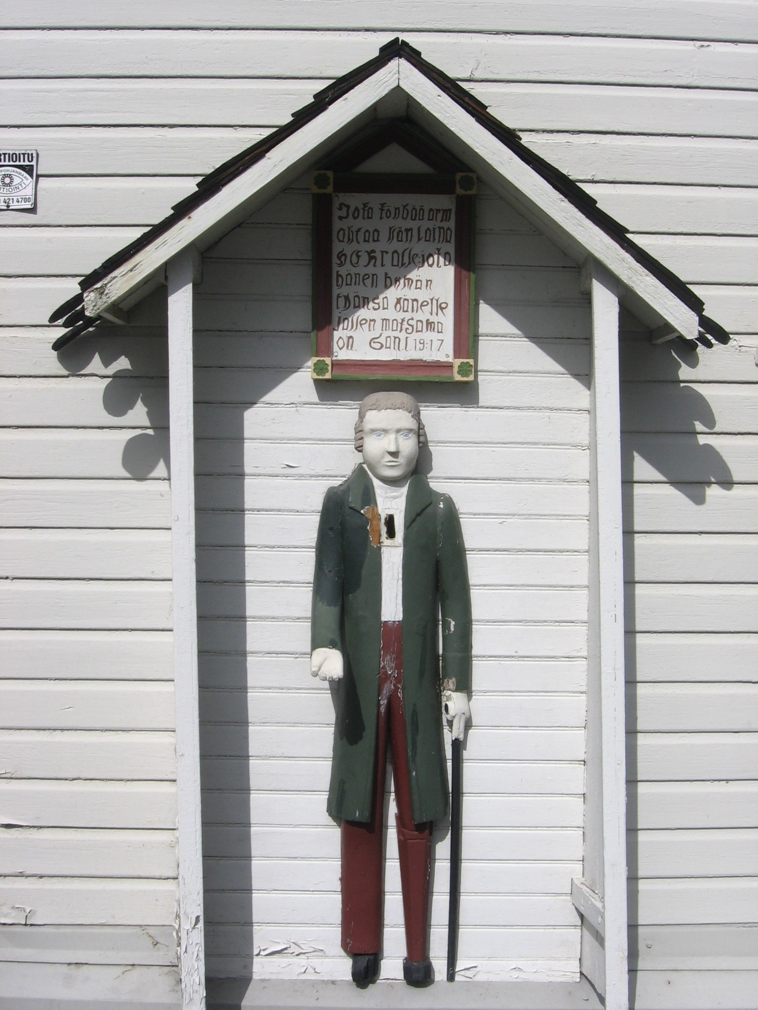 The wooden poorboy (vaivaisukko in Finnish) by the Nurmo Church in Nurmo, Finland